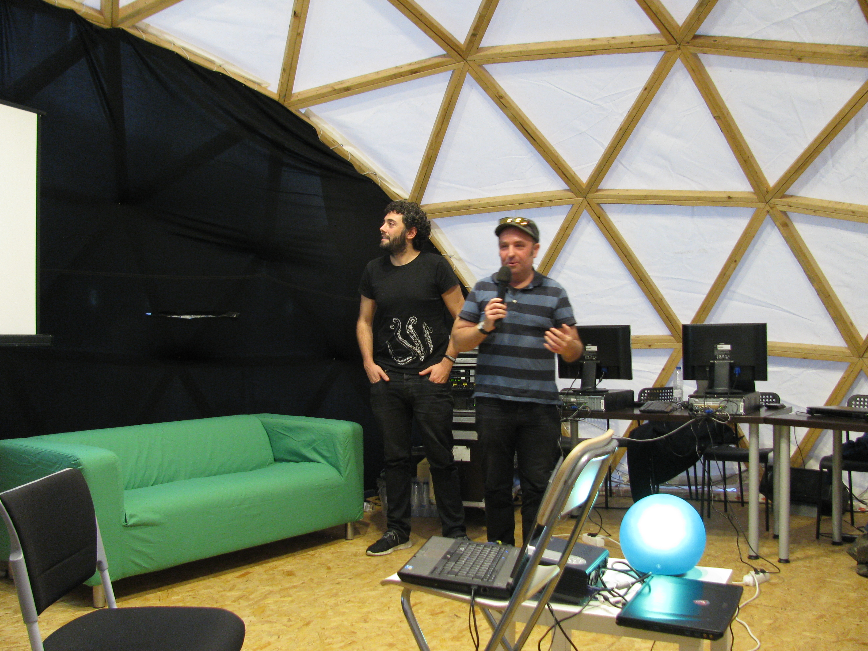 Iñaki LL and Gorka Julio 'Teketen' at the Durango Basque Book Fair